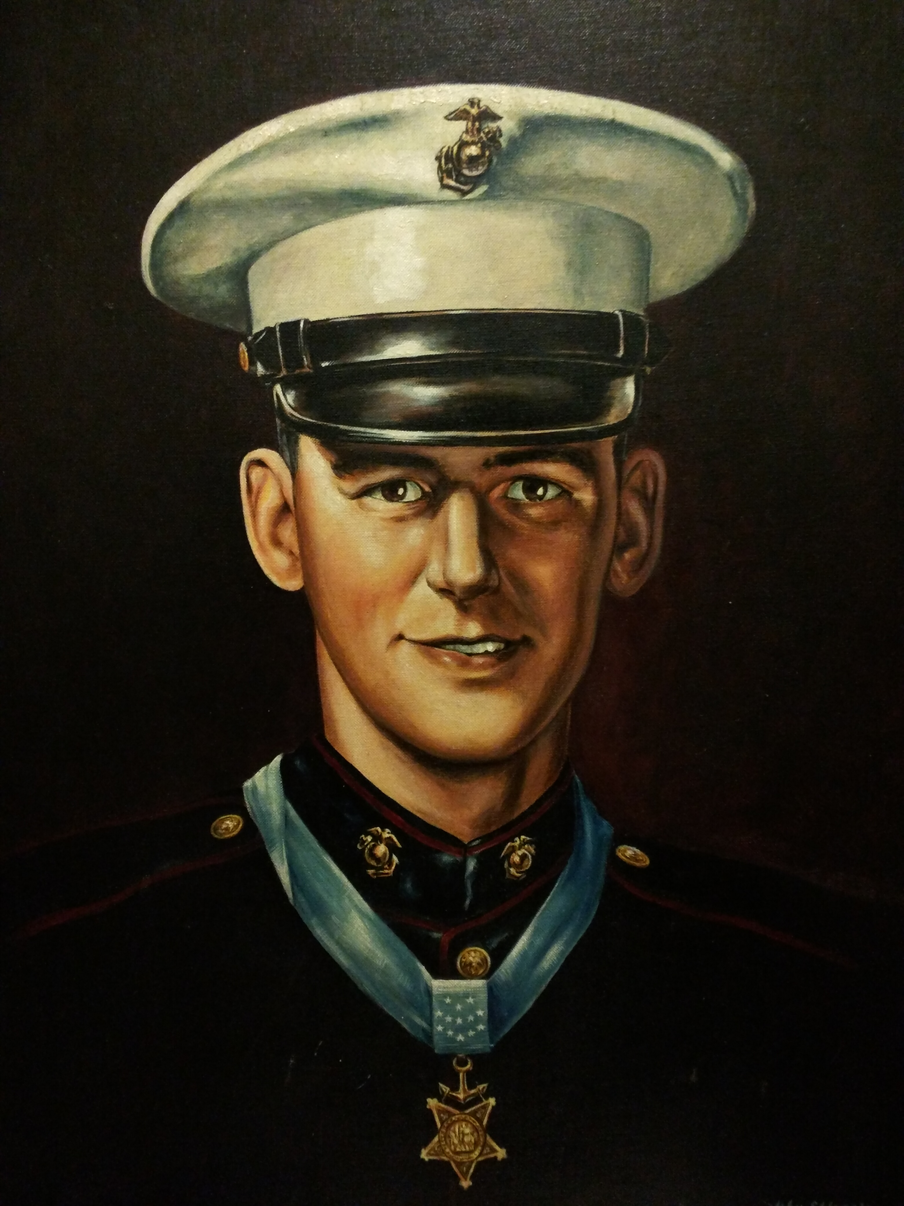 Photo of portrait of PFC John D. Kelly.